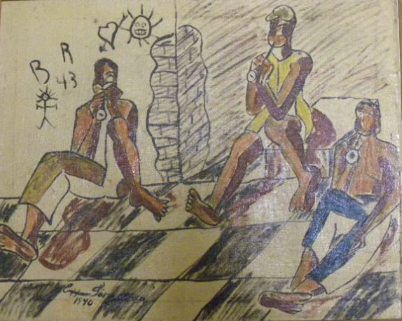 Artista: Carlos Haraldo Sörensen Primeiro Quadro do Artista Data: 1940